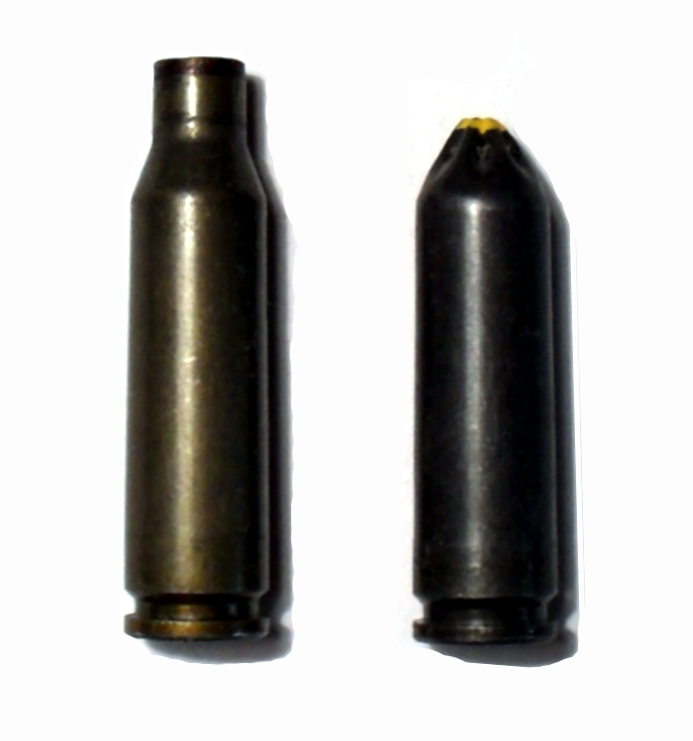 MPU-3 and 5.45x39 cartridges.